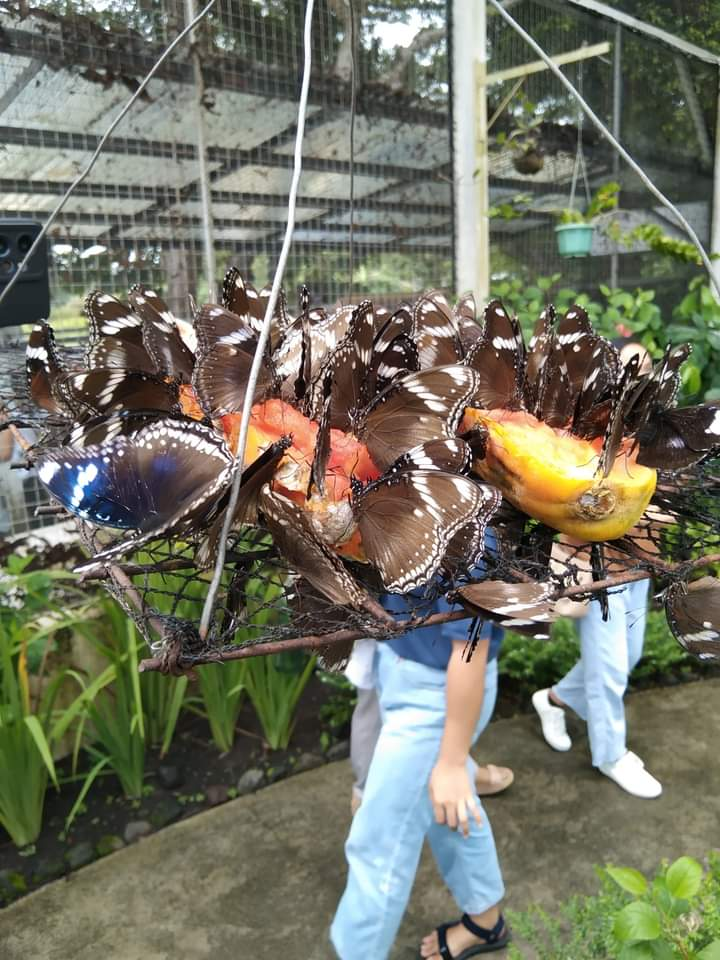 Butterfly Garden